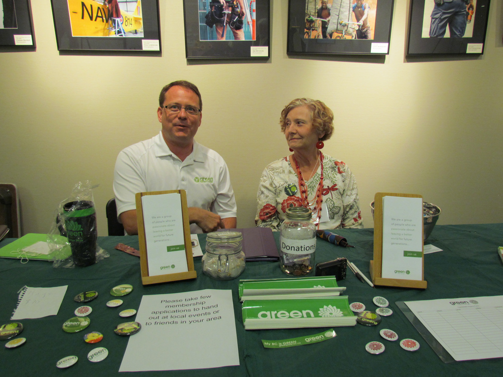 Green Party of Ontario leader Mike Schreiner and Green Party of BC leader Jane Sterk